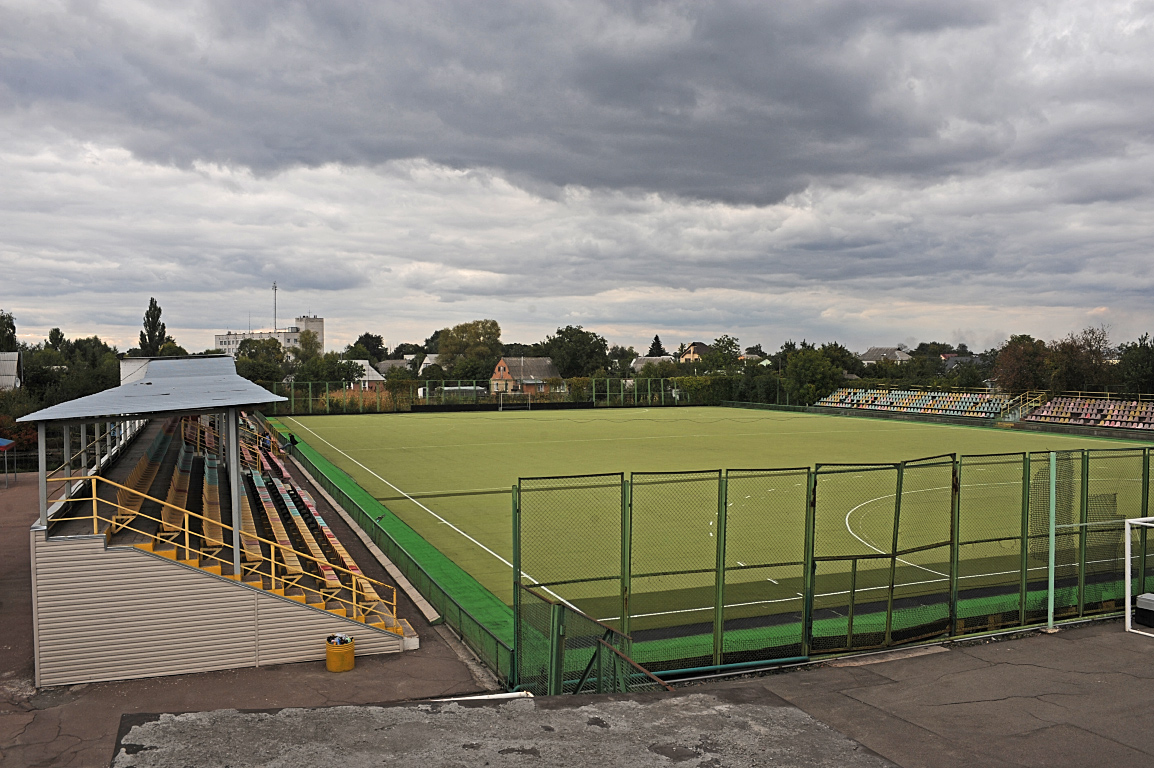 Kolos Stadium in Boryspil, Kyiv Oblast, Ukraine. Artificial field hockey field